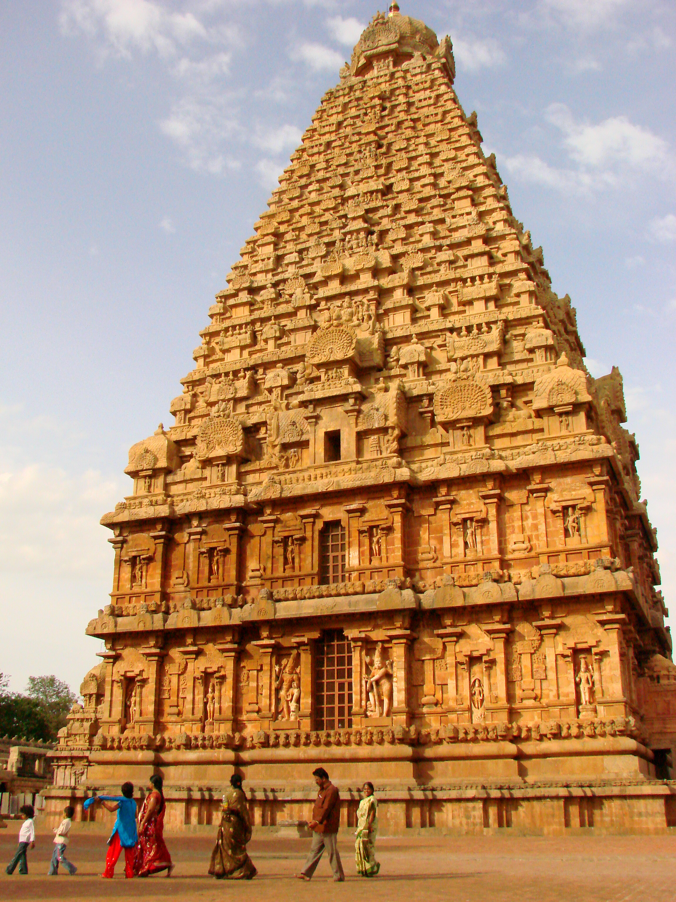 Brihadishwara Temple at Sunset, Thanjavur, India. July 2008.